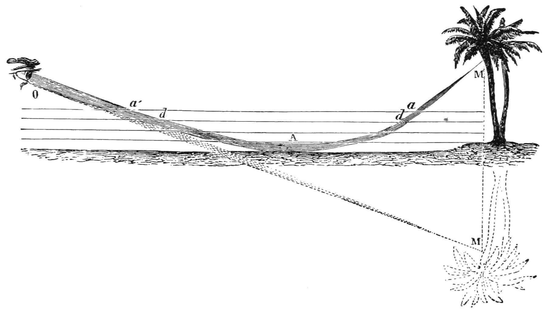 Theory of mirage